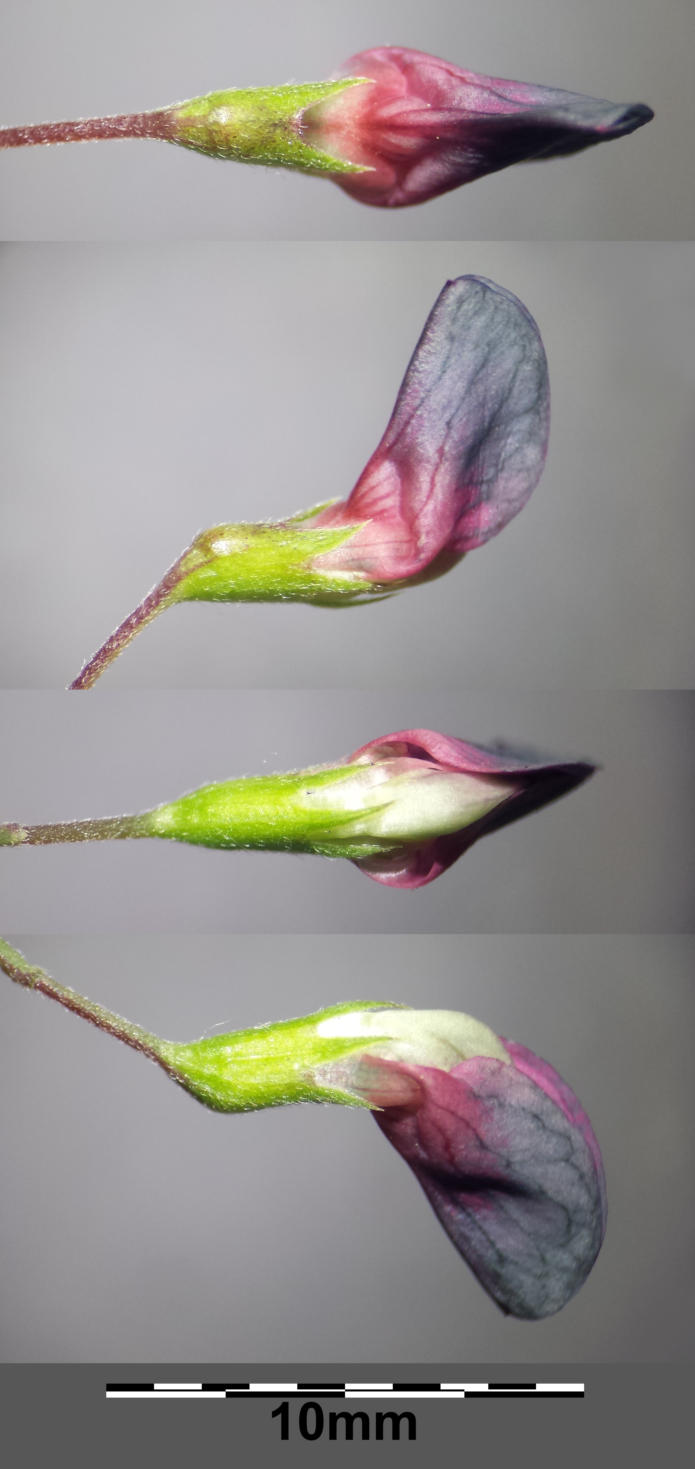 Flower Taxonym: Lathyrus nissolia ss Fischer et al. EfÖLS 2008 ISBN 978-3-85474-187-9 Location: between Limberg and Burgschleinitz, district Horn, Lower Austria - ca. 350 m a.s.l. Habitat: meadows